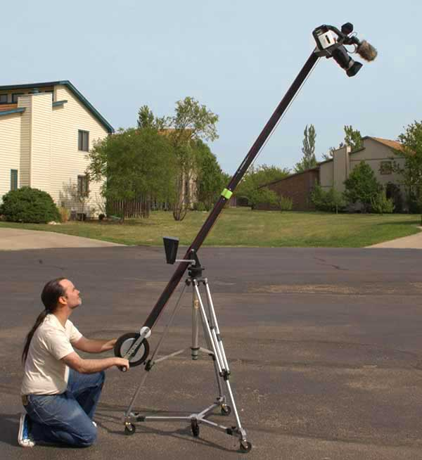 Jib positioned for high-angle shot; Photo by Henry Nelson, Wichita Kansas, USA, Henryn 19:20, 30 July 2007 (UTC)